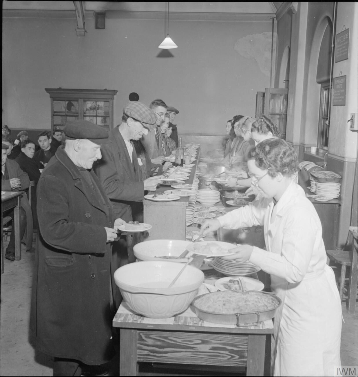 The Woolmore Street British Restaurant works on a self-service basis, with diners taking their plates to the counter to be served. Here we see 77 year old T Hambly receiving his lunch from one of the 'dinner ladies', whilst others queue up behind him, receiving their choice of dish from the servers along the line. Mr Hambly was a merchant seaman during the First World War.